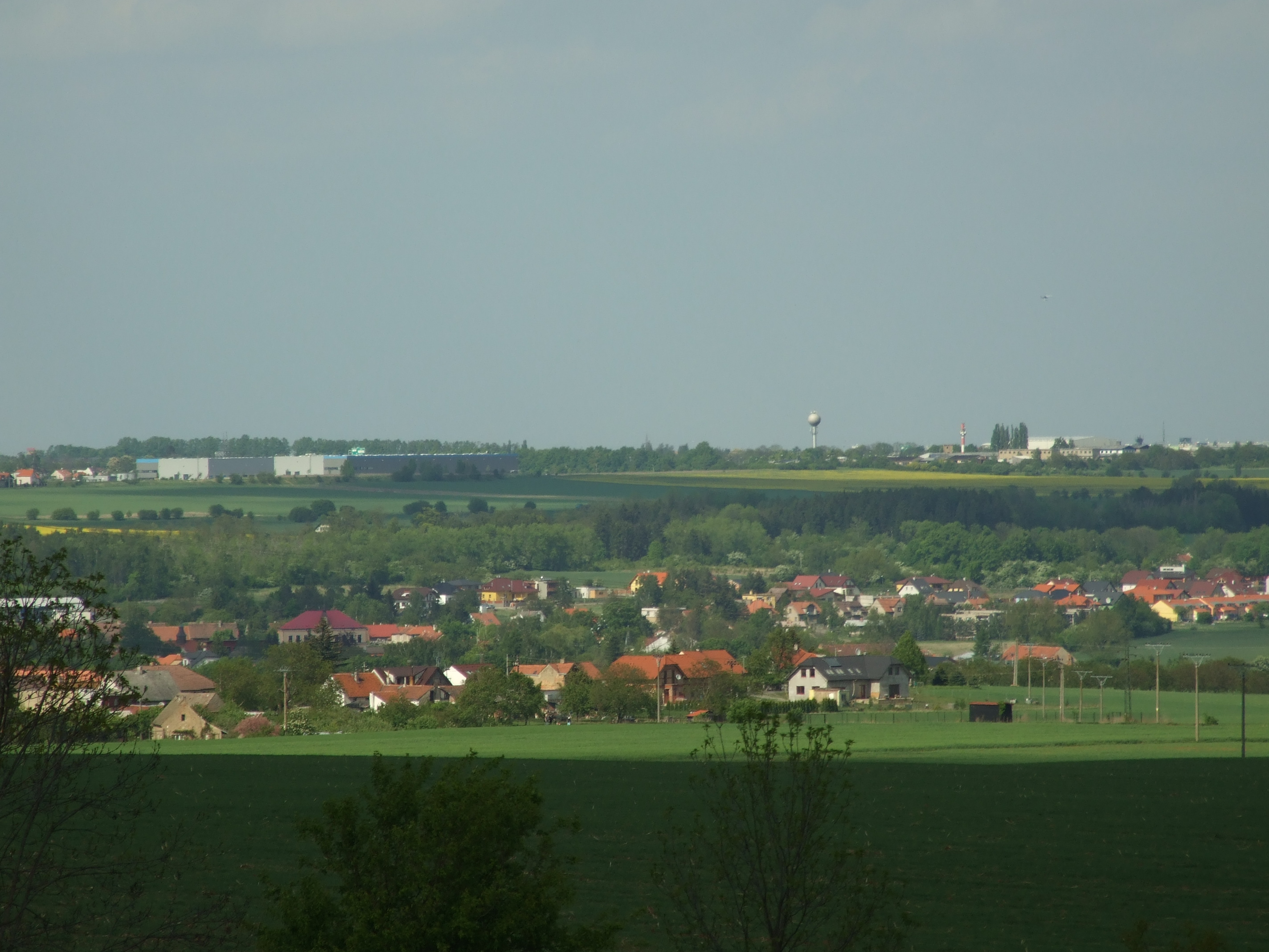 View of Mezouň from Vysoký Újezd in Central Bohemian region, CZhelp